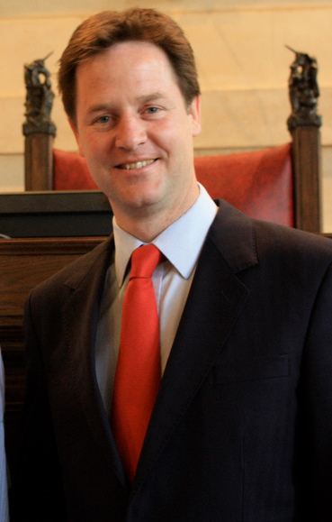 Nick Clegg